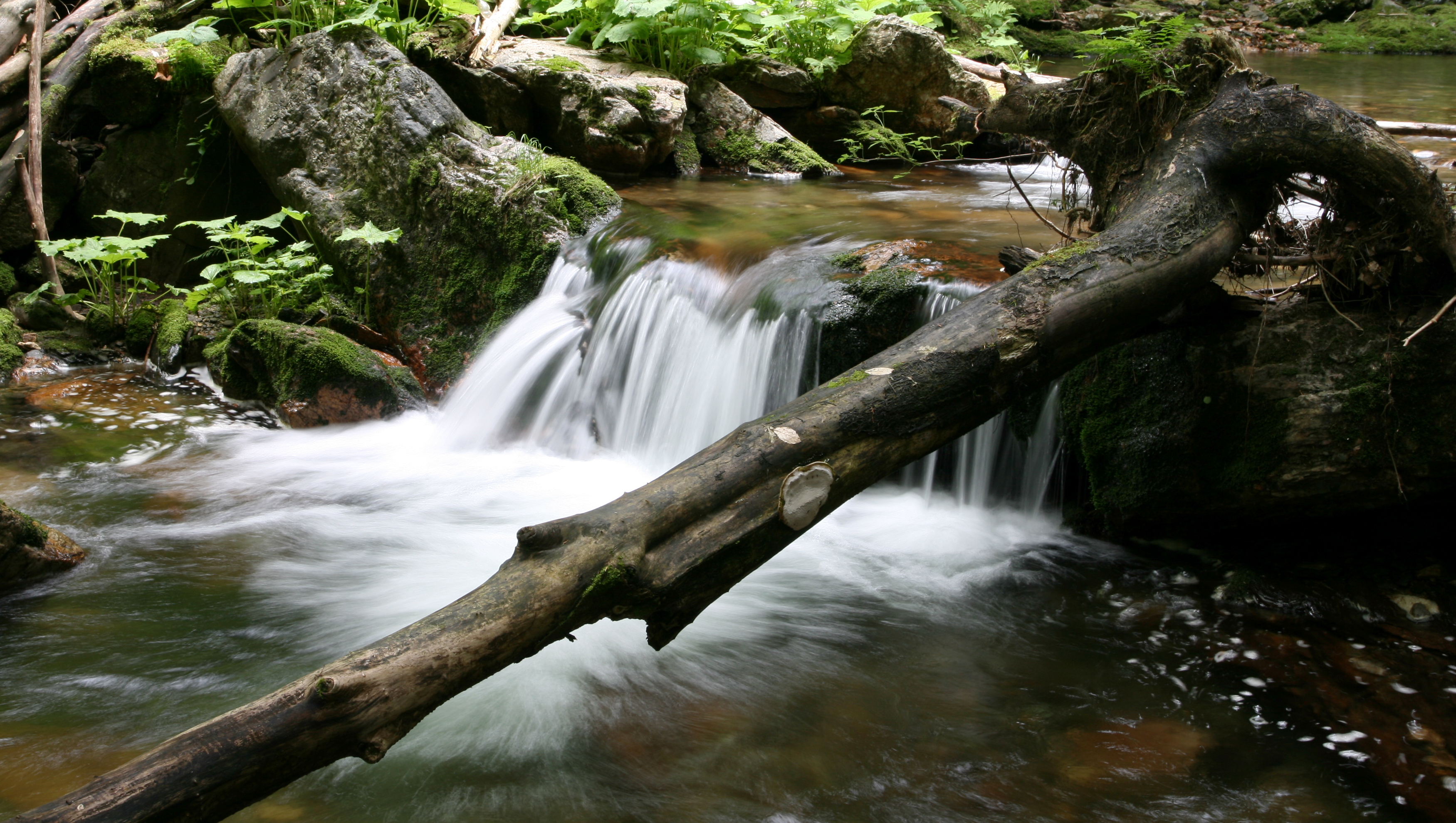 Very nice walk from Karlova Studanka up to Valey of Bila Opava River in Praded mountain.